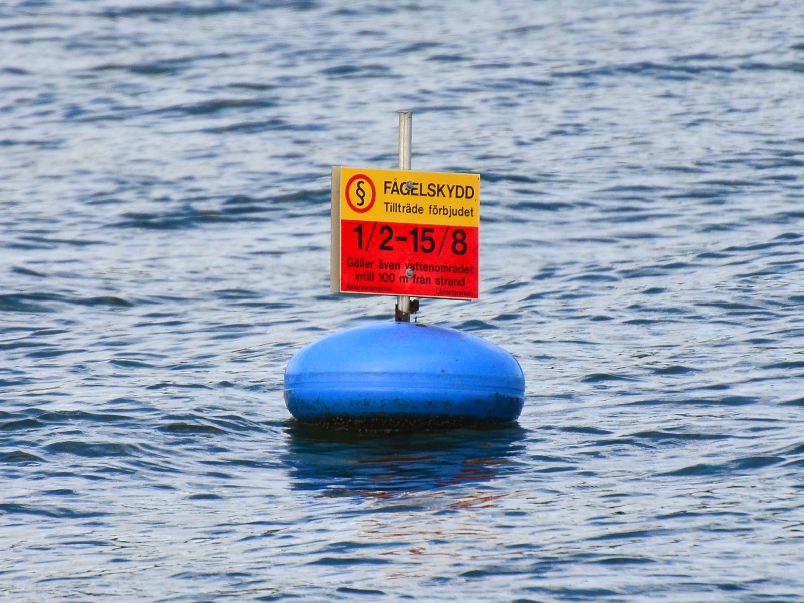 A Bird sanctuary sign, Ängsö National Park, Stockholm achipelago, Sweden.